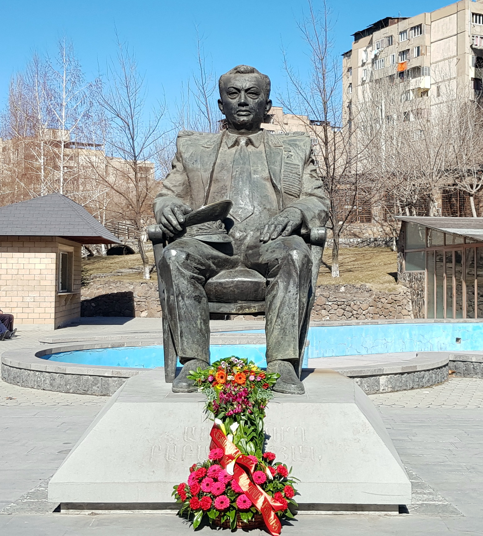 Hamazasp Babajanyan's Monument in Avan district of Yerevan